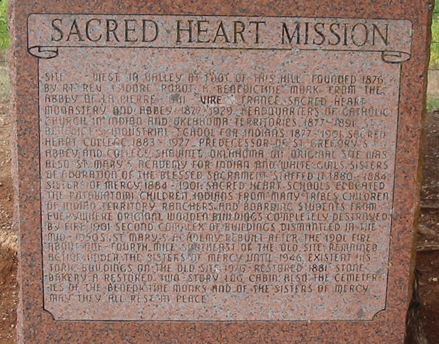 Sacred Heart Mission Historical Marker. Taken by Brad Holt, Aug. 2006